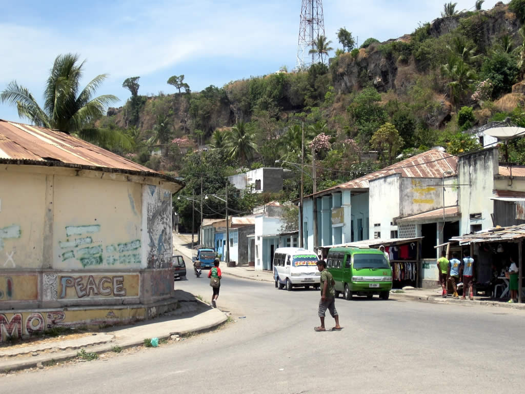 Old town Baucau Vahcuengh: Altstadt von Baucau (Suco Buruma)